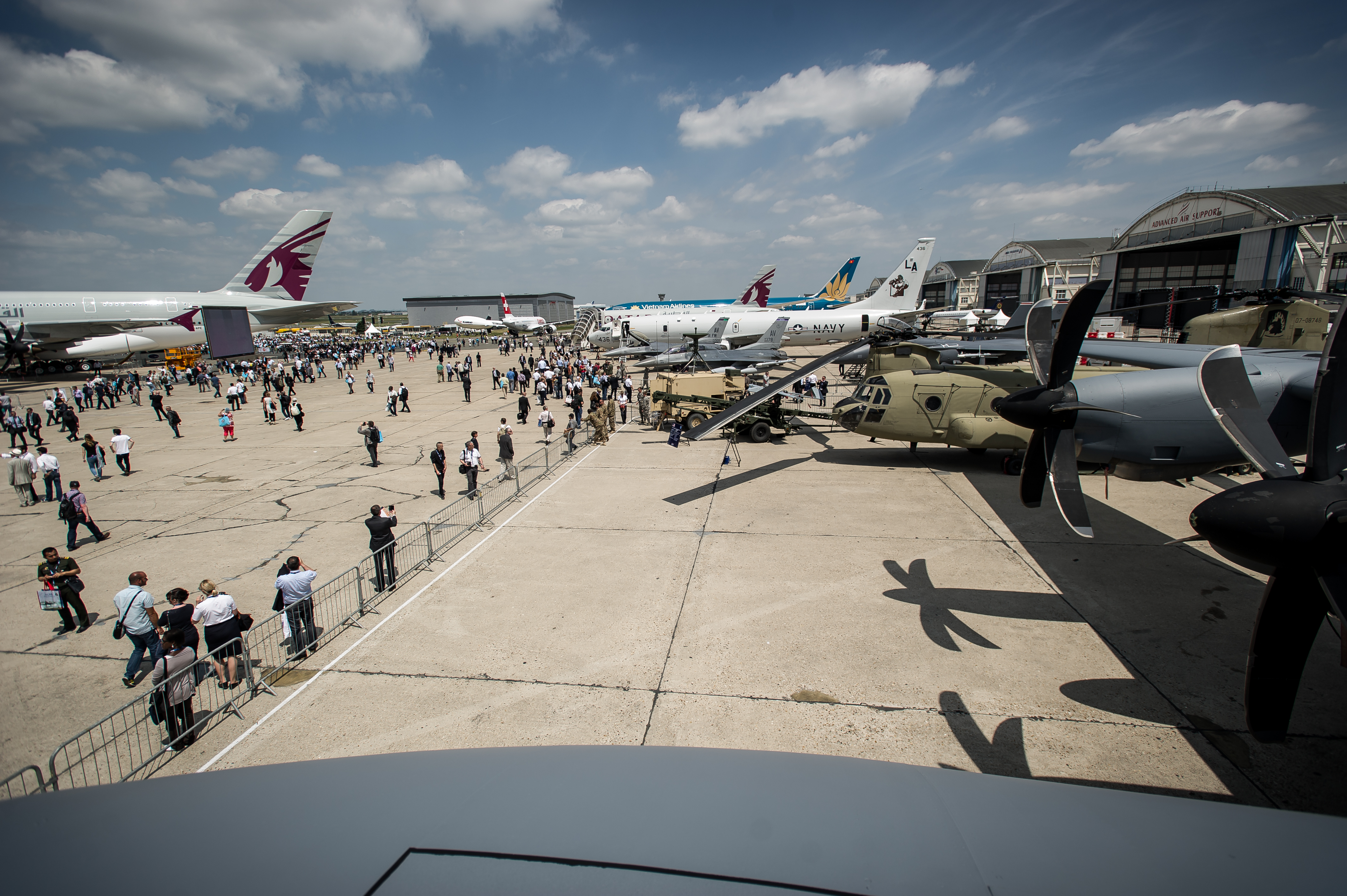 PARIS- U.S. Army, Navy and Air Force aircraft are on display during the Paris Air Show at Le Bourget Airport, France, June 17, 2015. The Paris Air Show provides a collaborative opportunity to share and strengthen the U.S. and European strategic partnership that has been forged during the last seven decades and is built on a foundation of shared values, experiences and vision. The event is expected to bring in 315,000 people, a record 2,215 companies, 150 aircraft, and will span 324,000 square meters. (U.S. Air Force photo/ Tech. Sgt. Ryan Crane) Paris Air Show 2015.